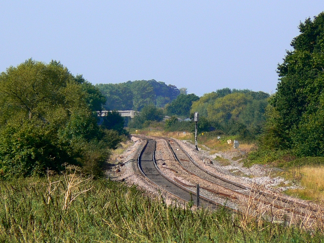 Main line to the west, near Compton Beauchamp The telephoto lens exaggerates the bends in the railway at this location. The bridge in the background is at SU245877